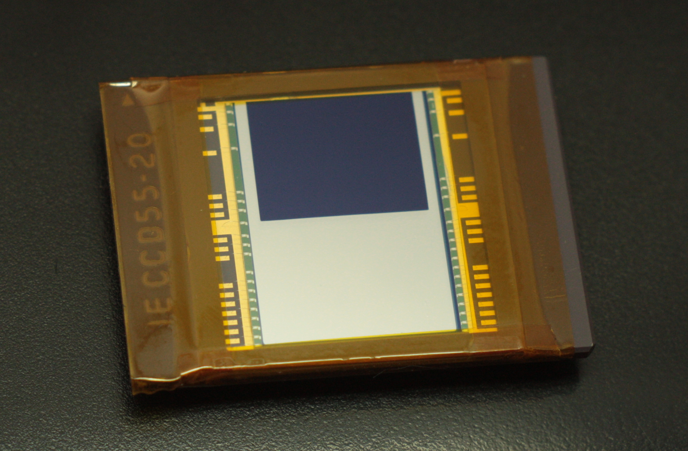 e2v technologies CCD55-20, a frame transfer CCD sensor with 13 mm × 17.3 mm image size and 576 × 770 pixel resolution